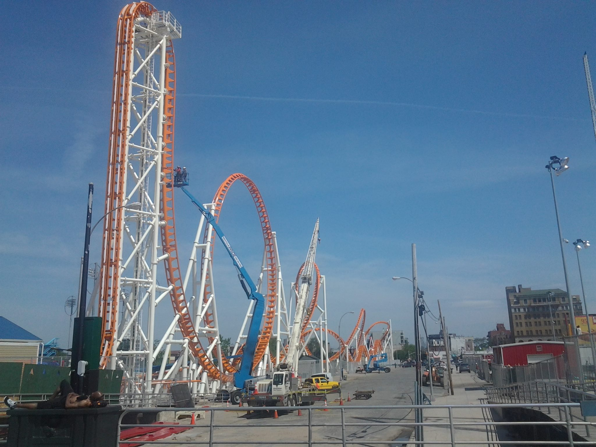 Thunderbolt Roller Coaster in Coney Island, Brooklyn, New York while under construction on May 26, 2014.